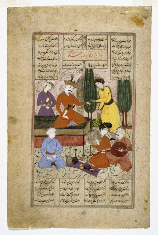 Page from a manuscript of the Shahnama of Firdawsi (d. 1020)